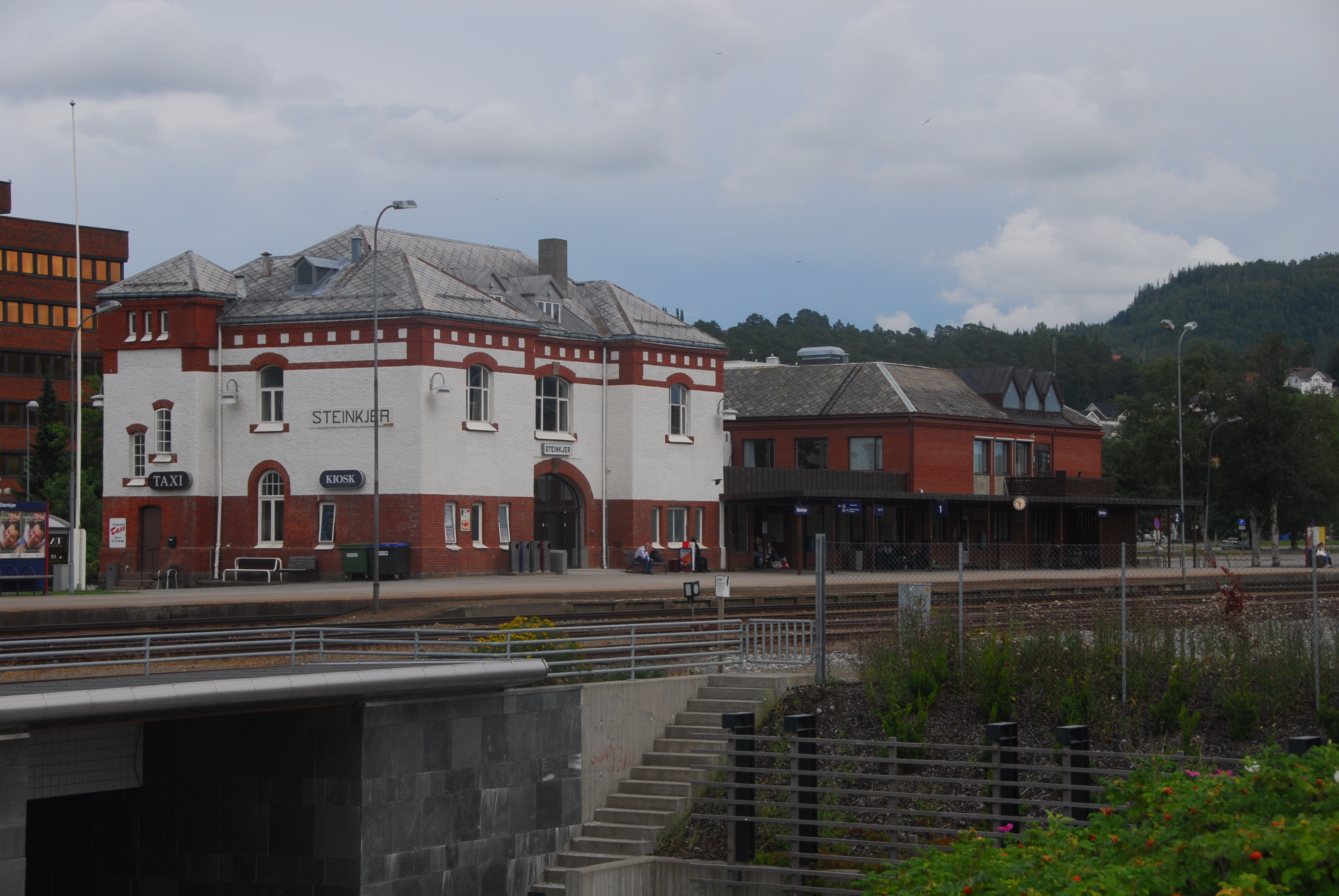 Steinkjer Station on the Nordland Line in Steinkjer, Norway.